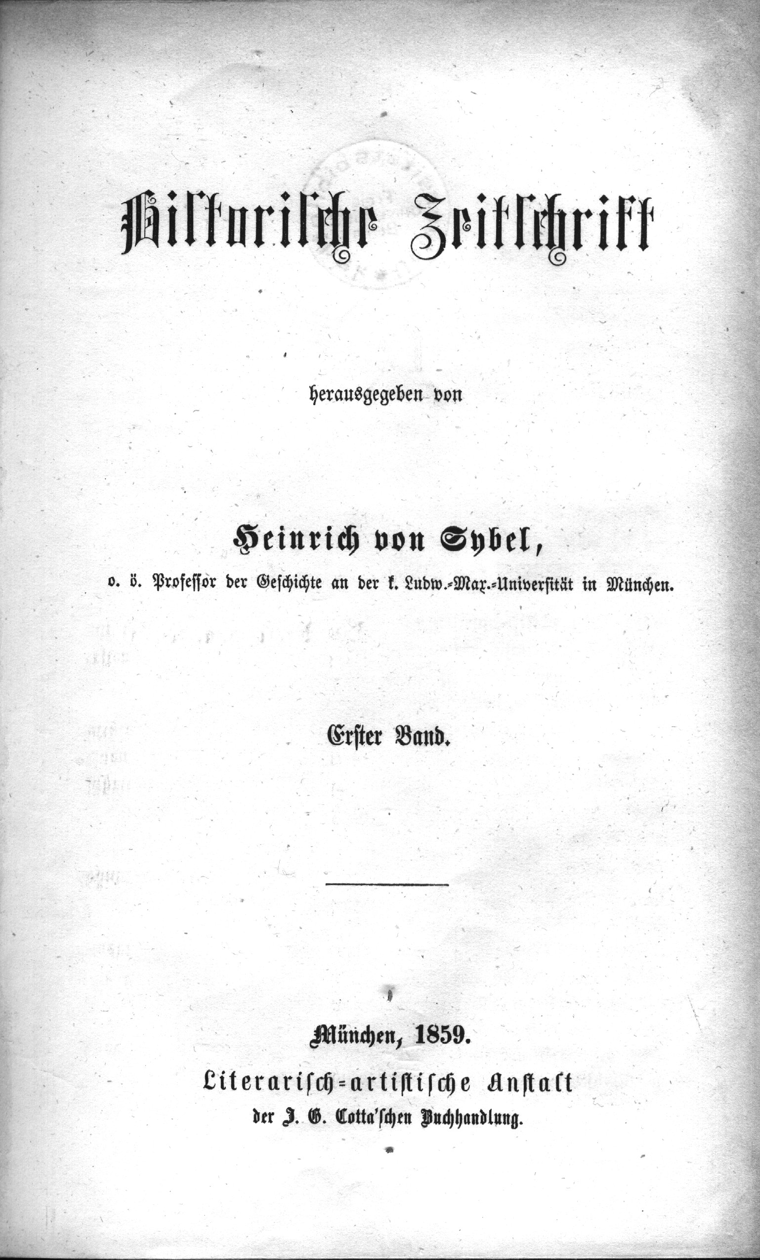 This is a scan of the historical document